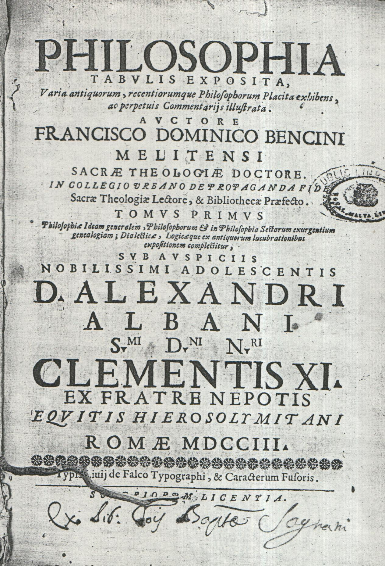 Philosophia Tabulis Exposita (1703) of Francis Dominic Bencini.